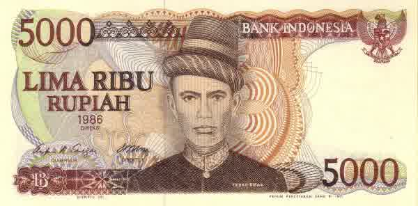 Indonesian currency issued 1976-2000.